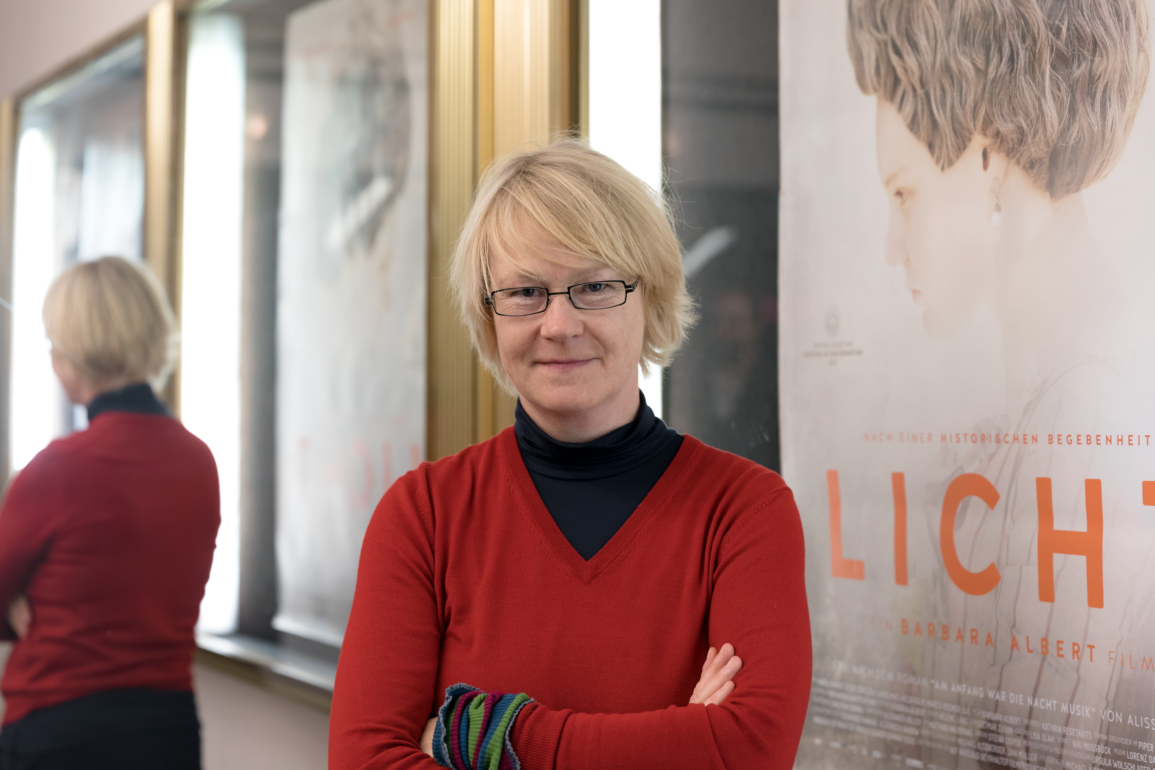 Niki Mossböck at a screening of the film Mademoiselle Paradis hosted by Ö1 (Votivkino, Vienna, Austria).